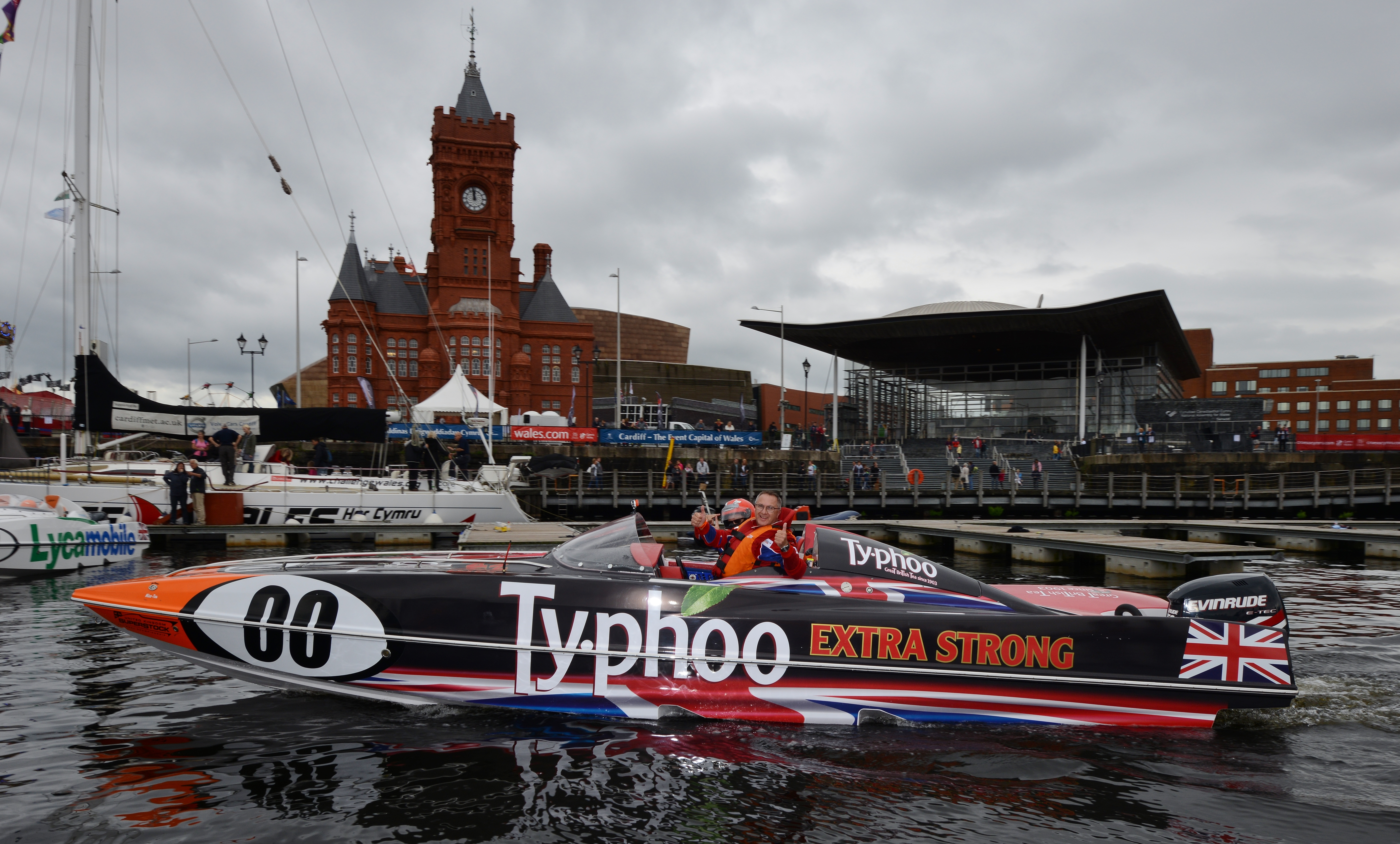 The Typhoo Panther off the shore of Wales